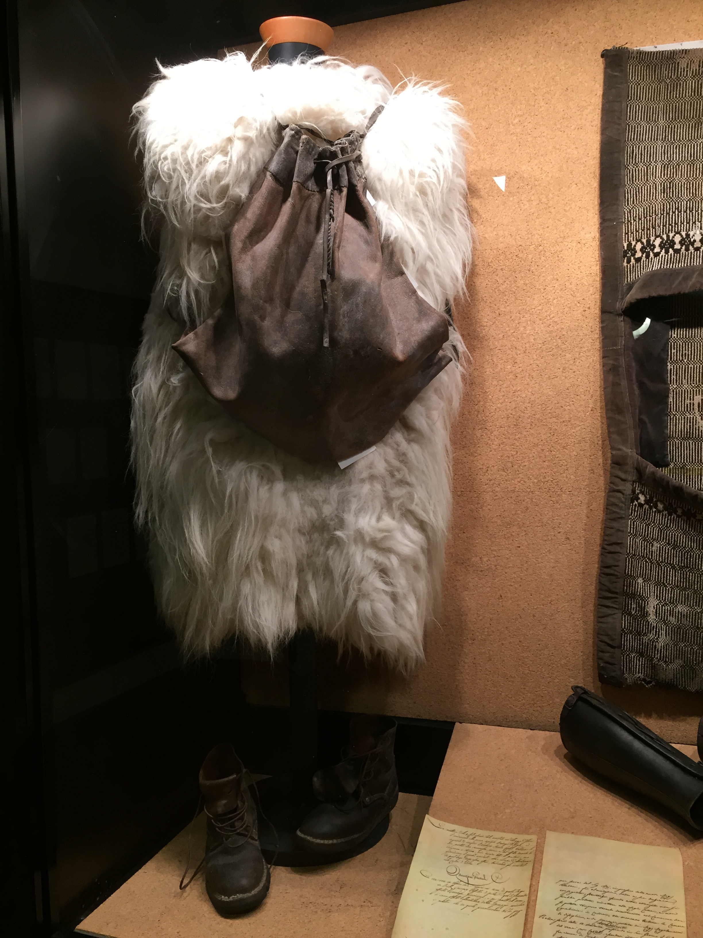 This photograph was taken with an iPhone 6